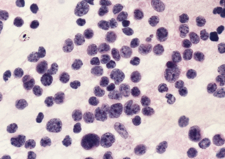 AFIP405820M-MEDULLOBLASTOMA CNS/Micro Dense, coarse, and moderately pleomorphic nuclei are common.